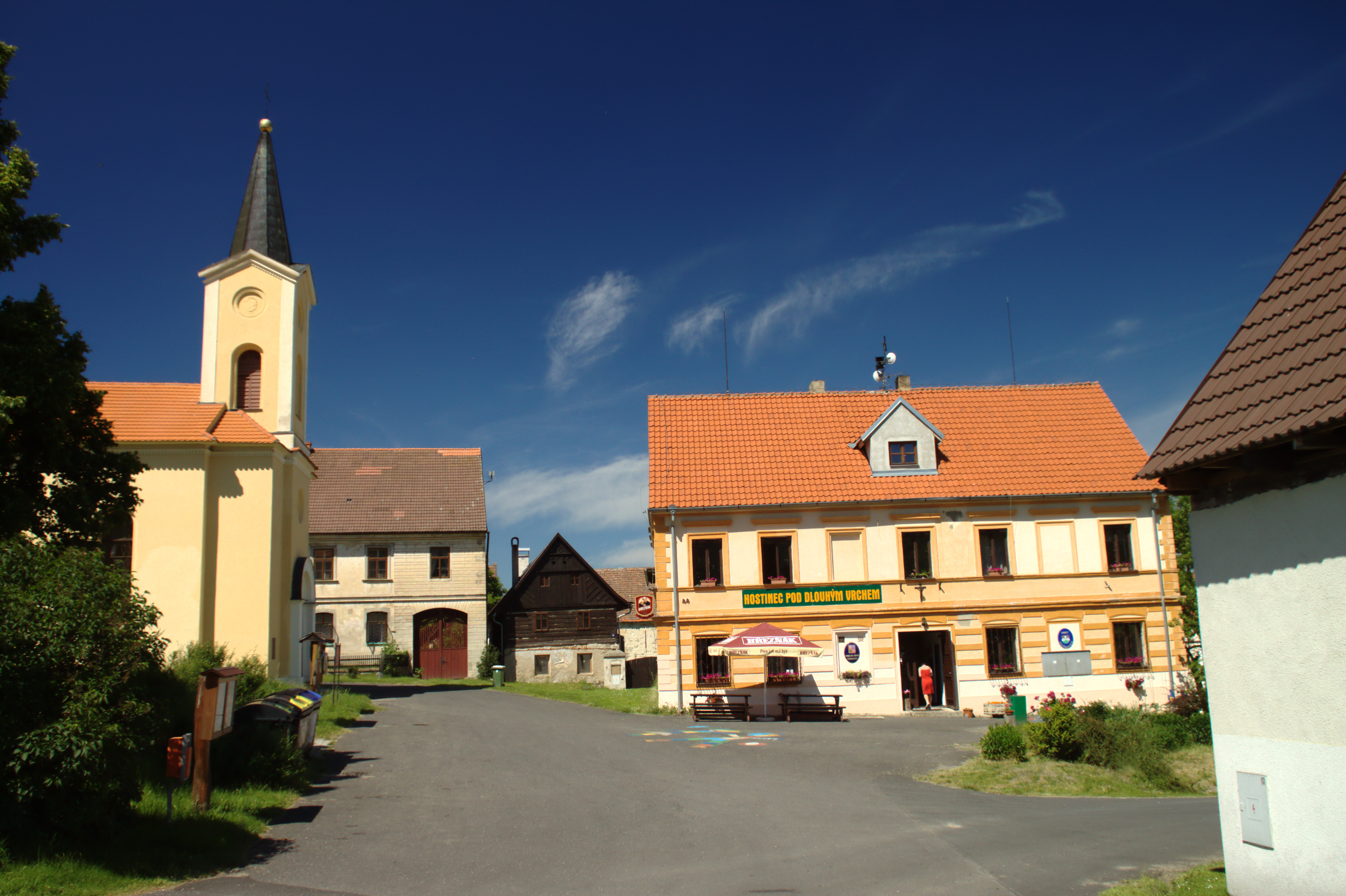 A church with a pub at a common in the village of Staňkovice, Ústí Region, CZ